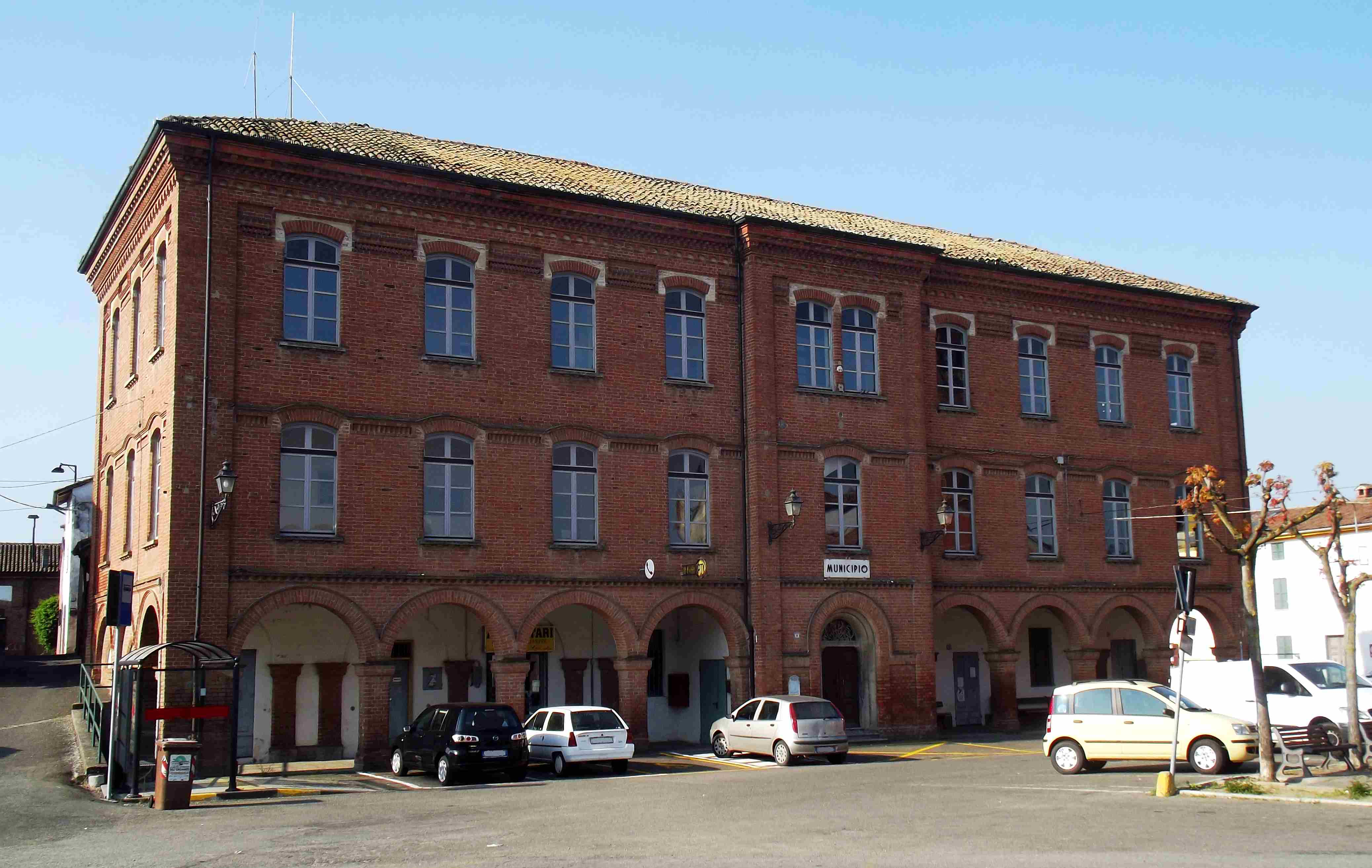 Castelspina (AL, Italy): town hall